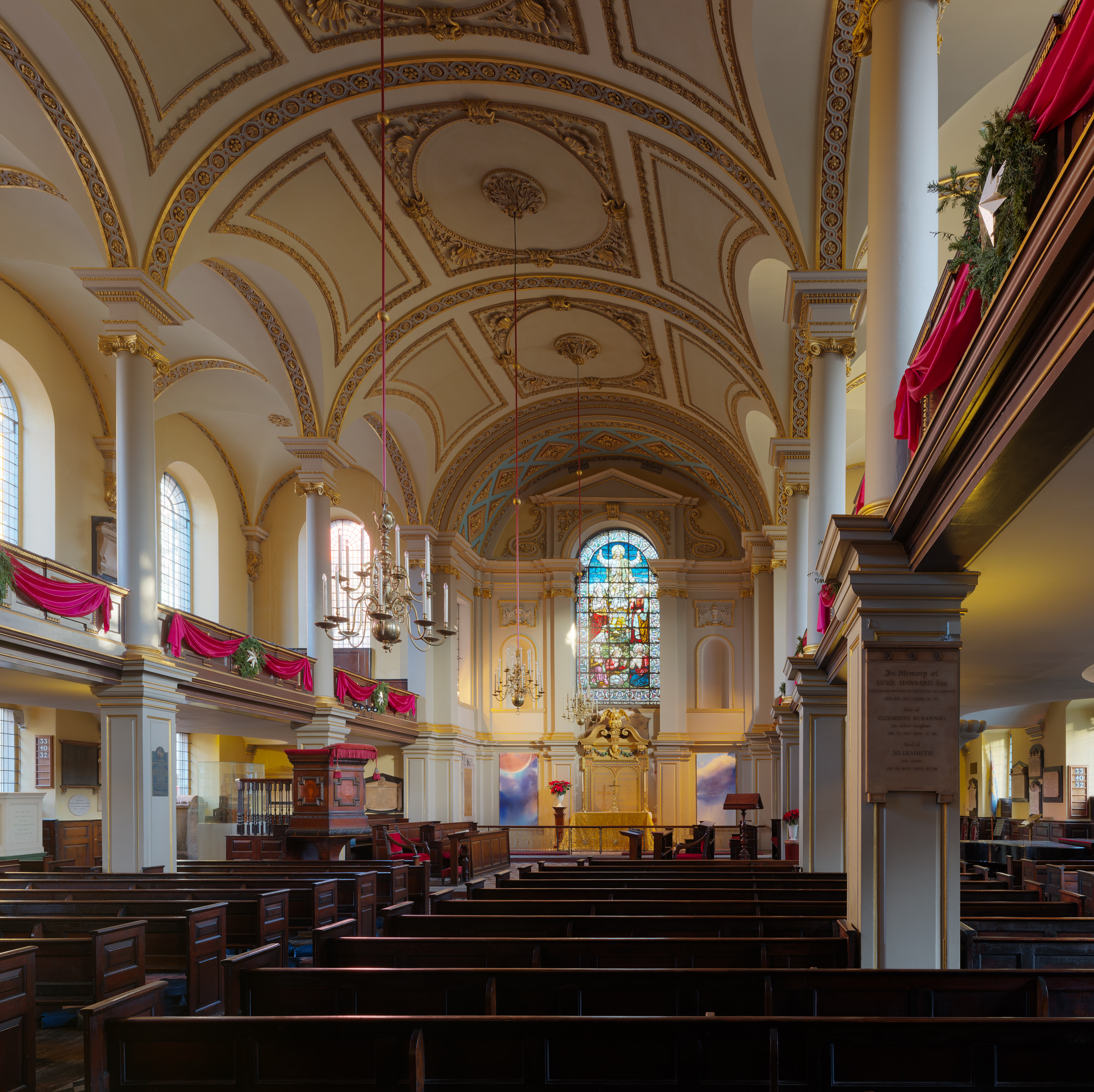 St Giles in the Fields Church in London, England.